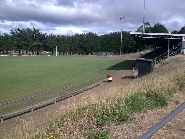 Long view of Boyer